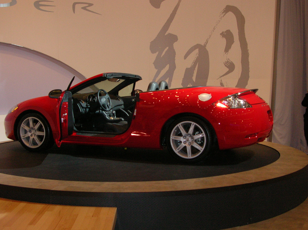 2006 Mitsubishi Eclipse Spyder